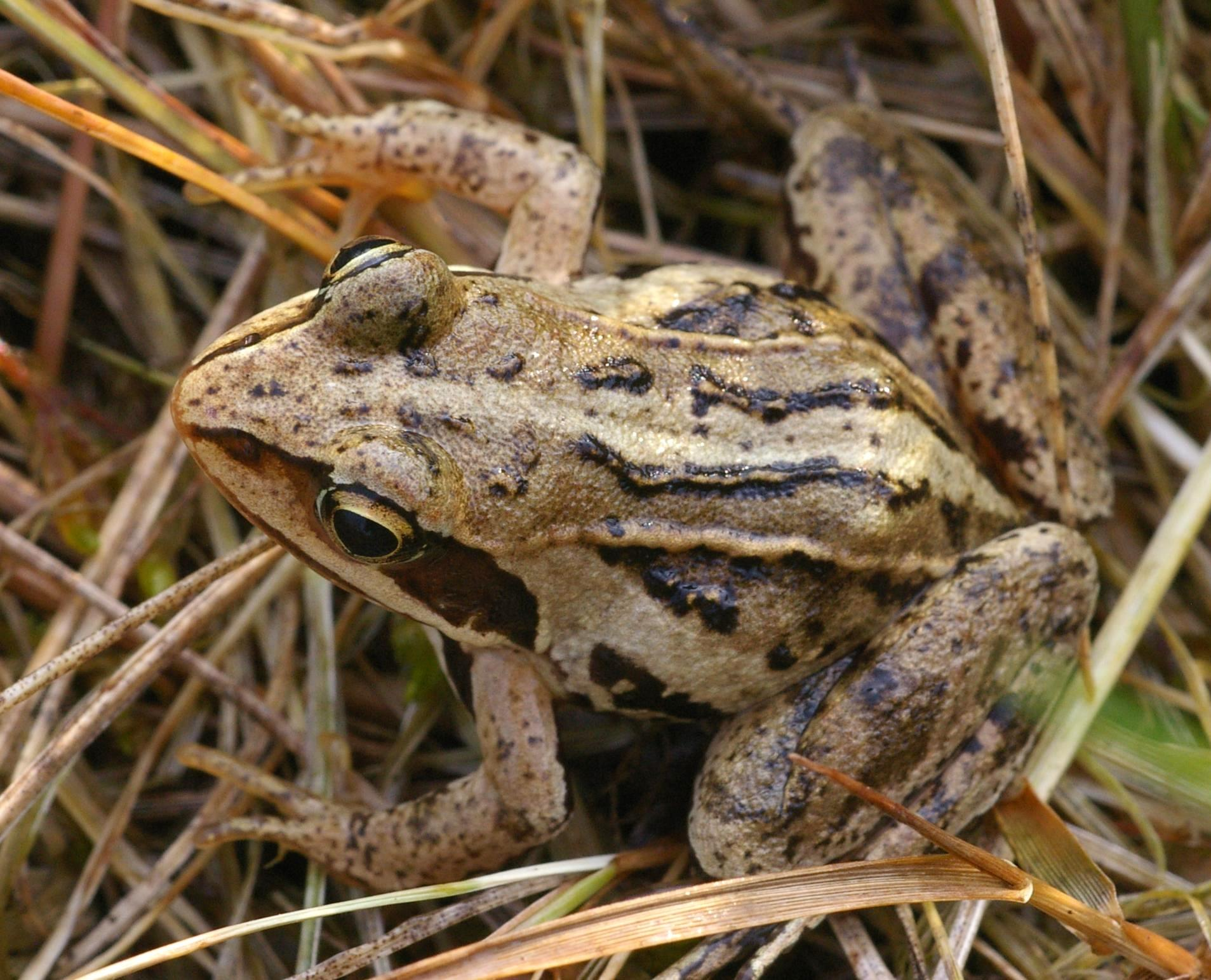 Immature Moor Frog, Rana arvalis, 12 months after his metamorphosis from a tadpole to a frog; about 3 cm long.